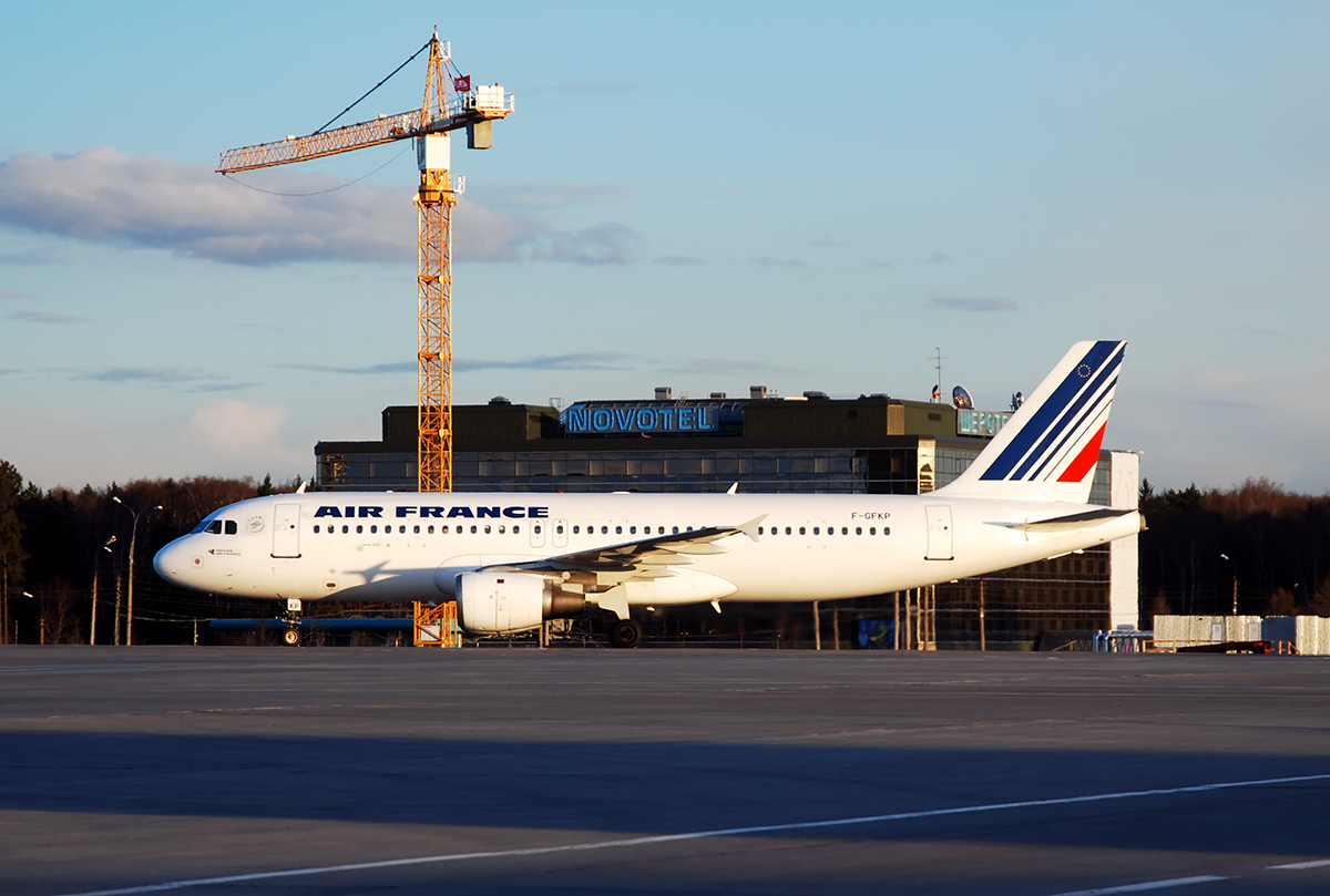 "Air France"